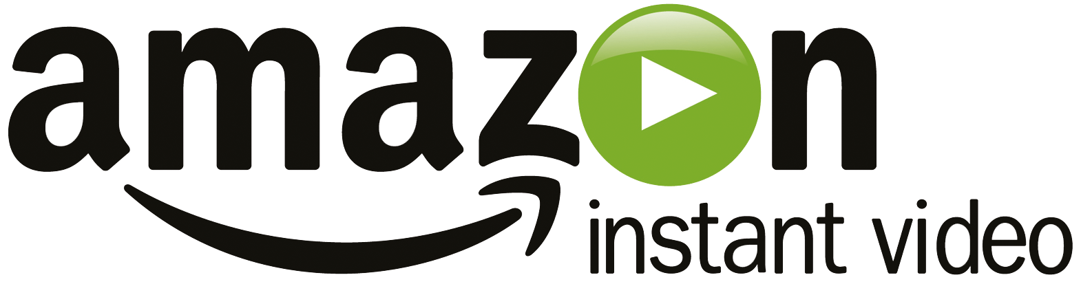 Logo of the amazon service Amazon Instant Video